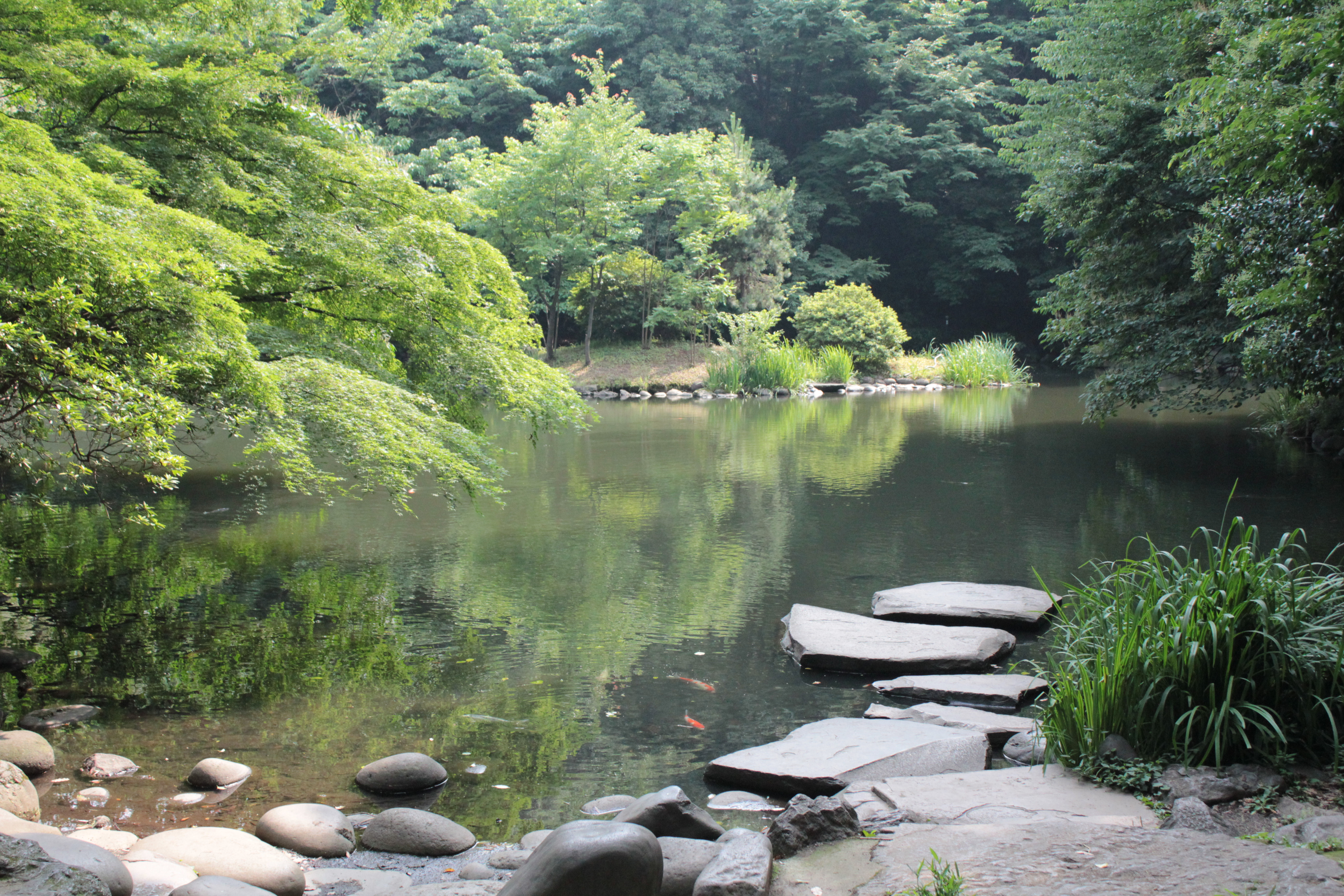 Sanshiro Pond on the University of Tokyo's Hongo campus